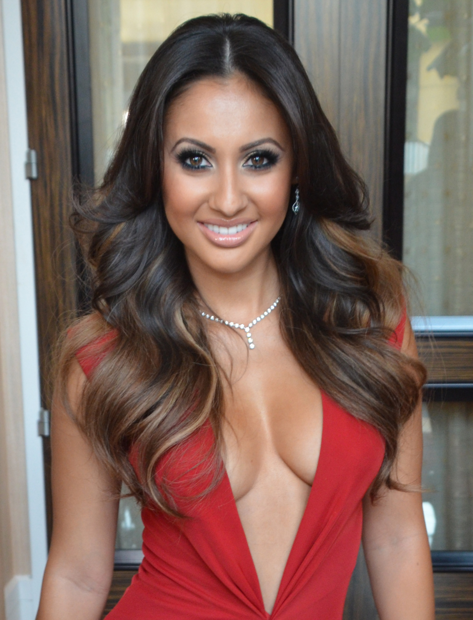 Francia Raisa at the 27th Annual Imagen Awards Red Carpet 2012.